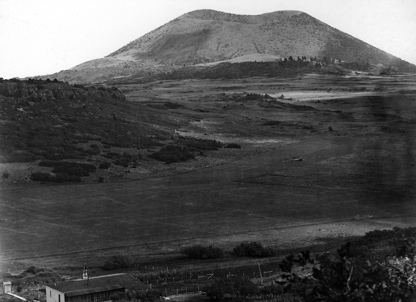 Capulin Volcano National Monument. Original caption: Mount Capulin from side of the mesa west of the Mount Capulin Ranch in foreground. New Mexico. 1916.